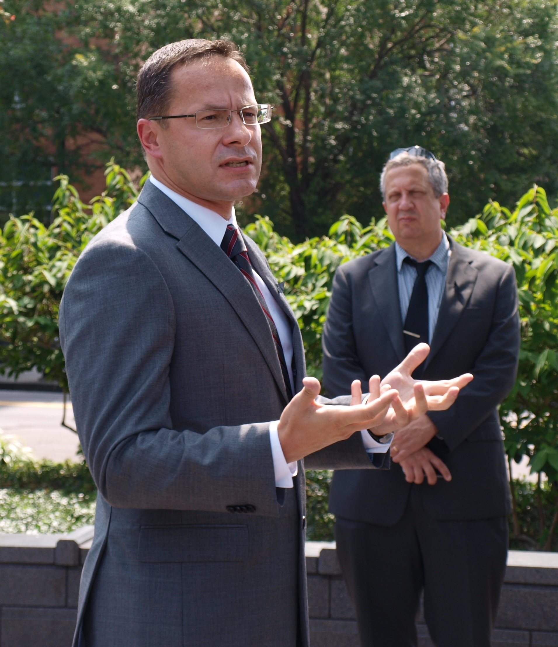 Žygimantas Pavilionis at the Victims of Communism Memorial